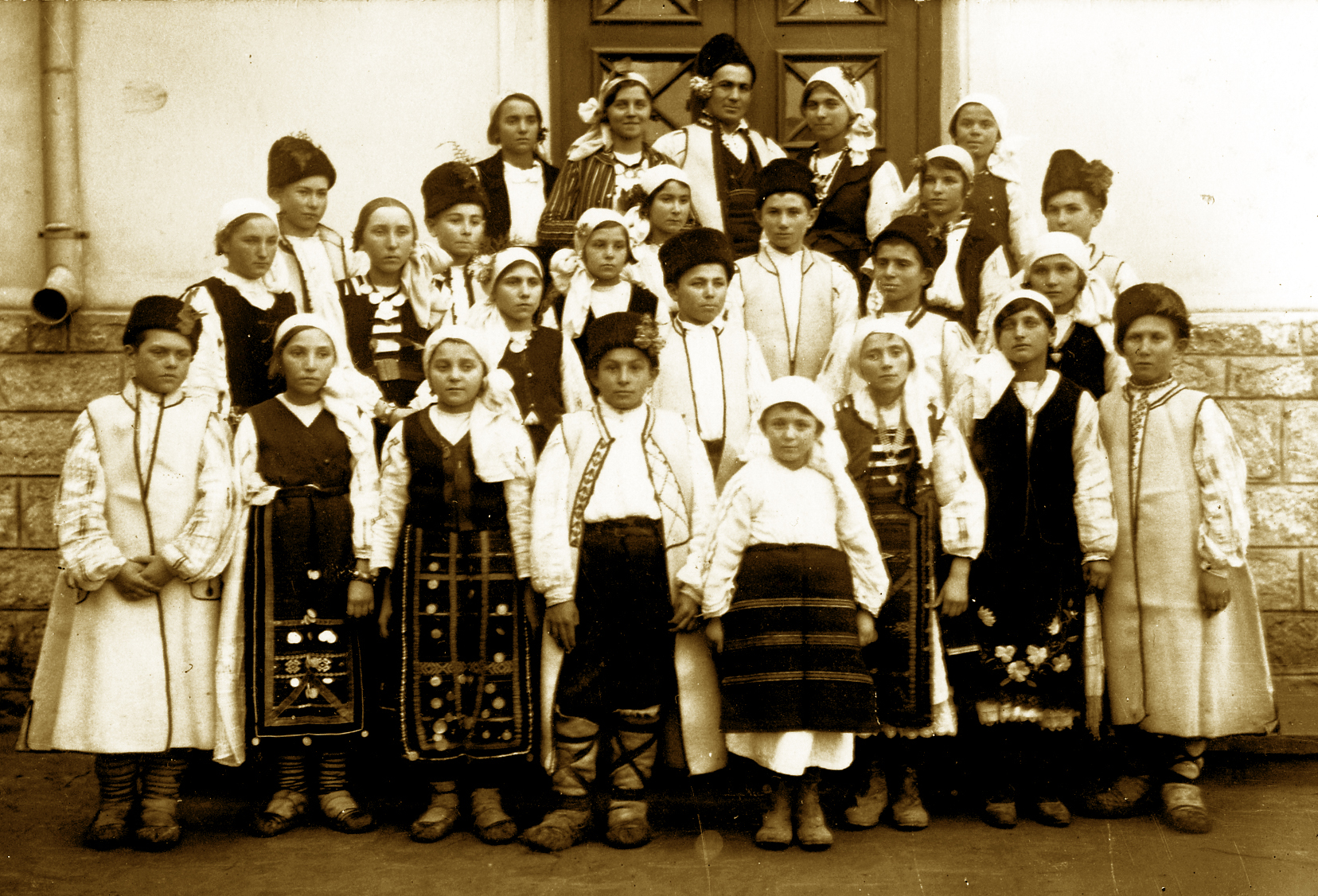 Tsvetan Konstantinov - teacher, v. Mihajlovo, Bulgaria.1939